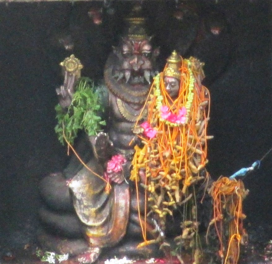 Singaperumalkovil